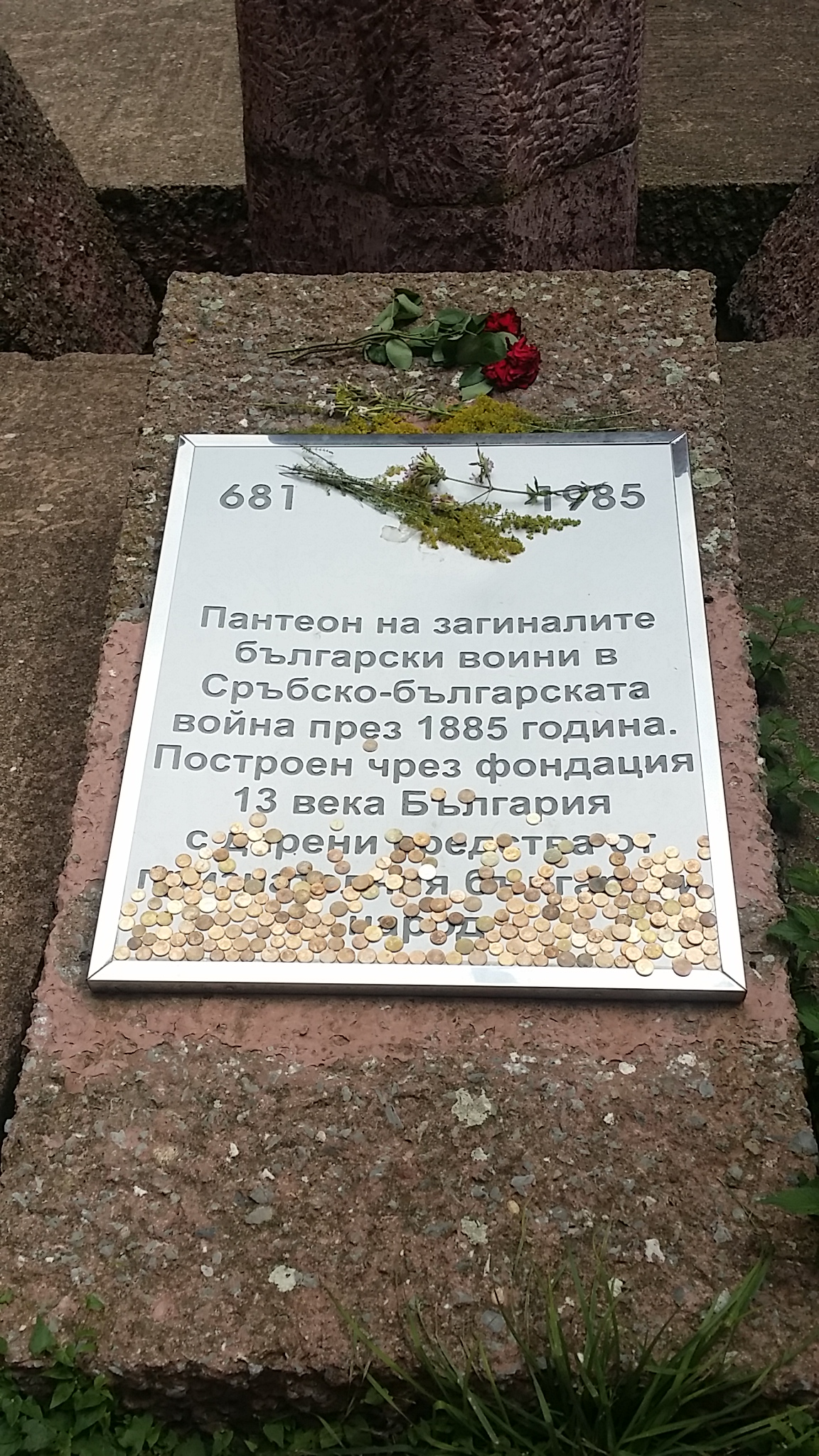 Паметна плоча в Пантеонът Майка България (Гургулят)